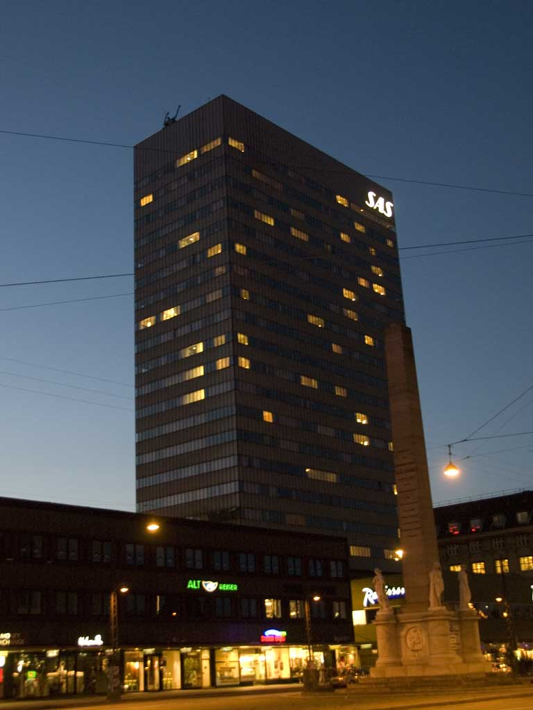 Modernist Arne Jacobsen's 1960 Mies-inspired SAS hotel, Downtown Copenhagen